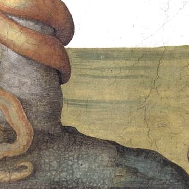 Michelangelo- Sistine Chapel, small detail of Adam and Eve pic showing cleaning and restoration, for comparison with similar detail.